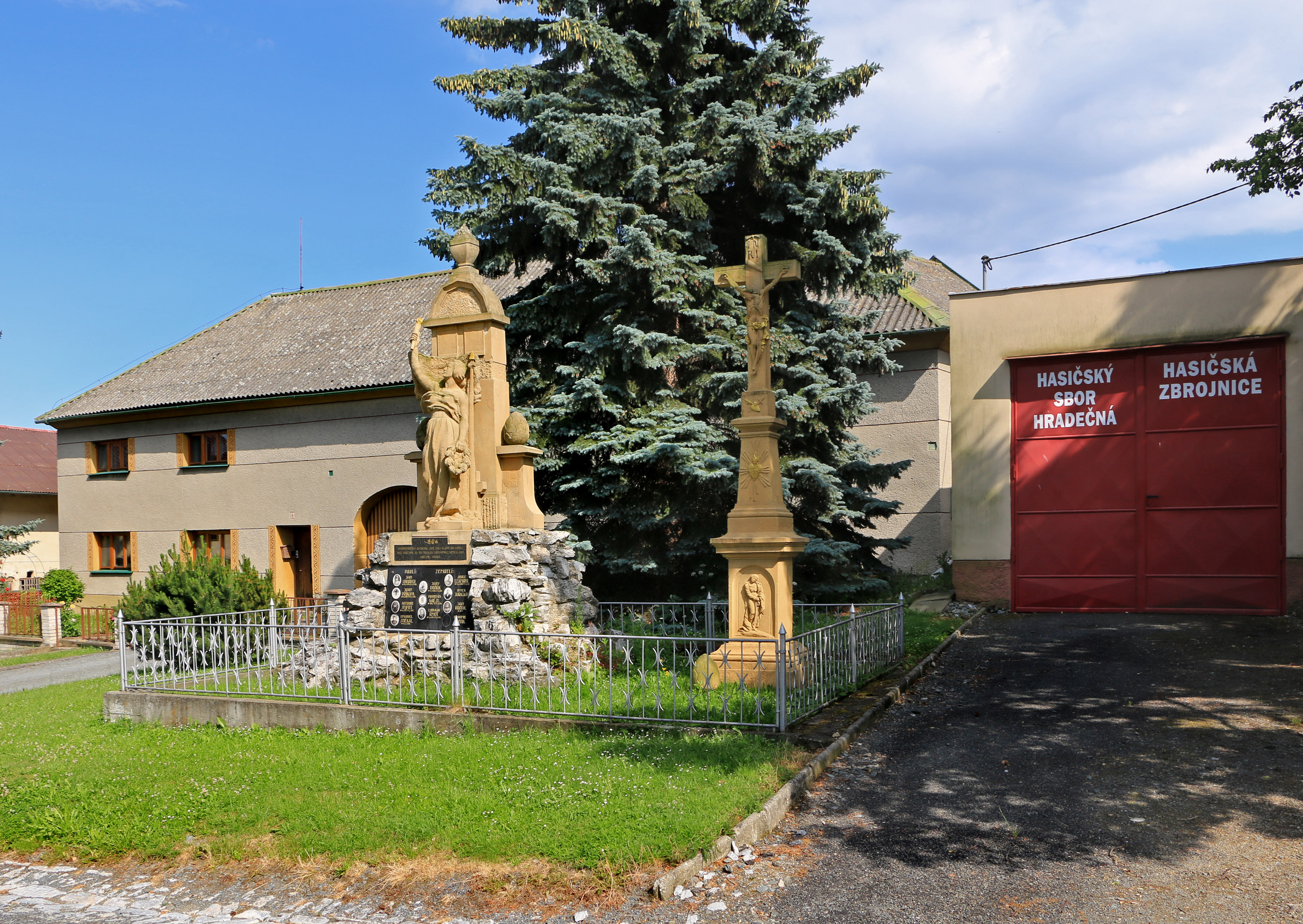 Memorial, crucifix and a fire house in Hradečná, part of Bílá Lhota, Czech Republic.